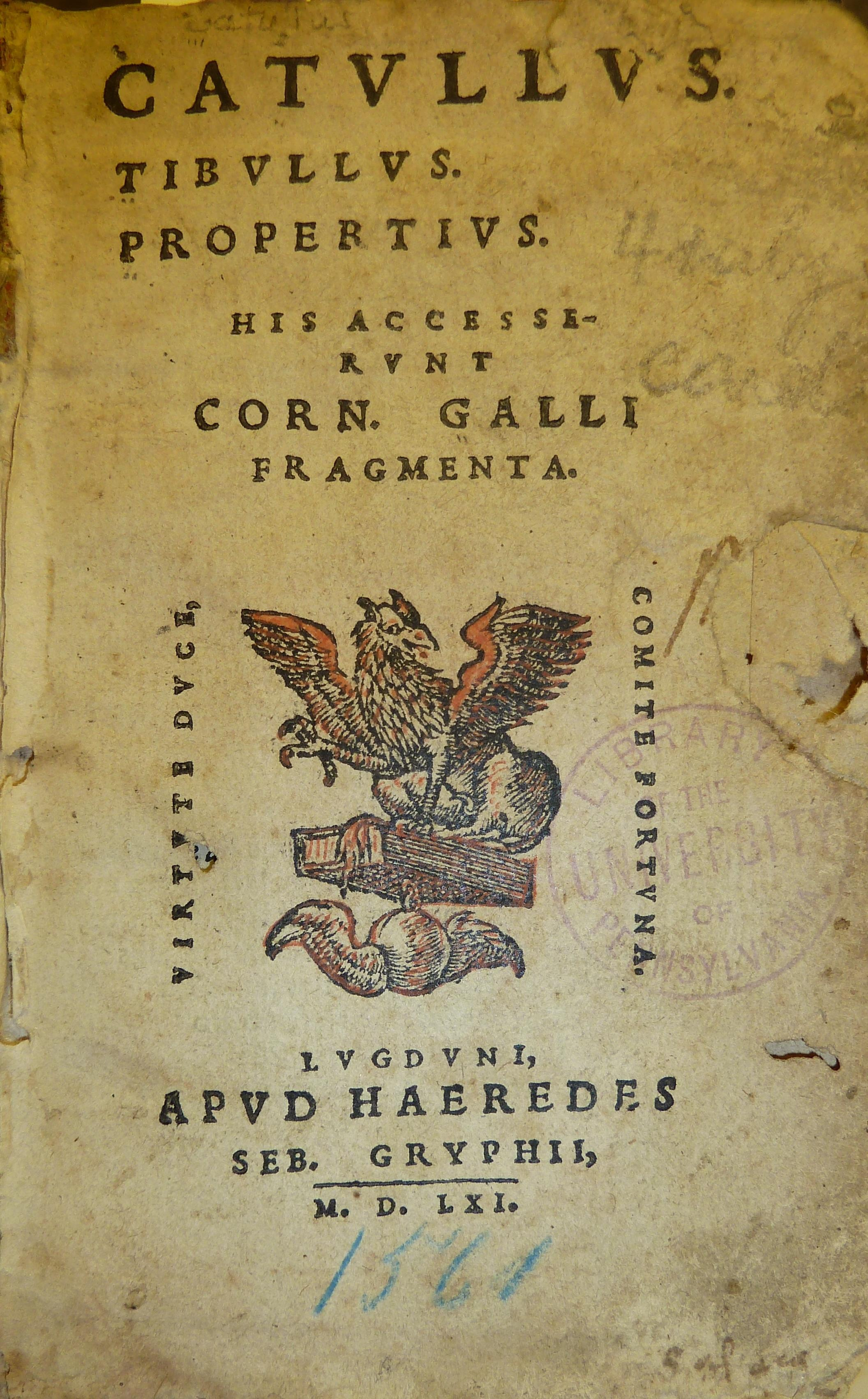 Penn Libraries call number: LatC C2994 561c All images from this book Uploader's note: I'm a bit confused by this. It's clearly dated on the title page 1561. But publisher Sebastian Gryphius died in 1556 and it's published with his mark. Reissue by his family? I can't find a source that says this explicitly, though.